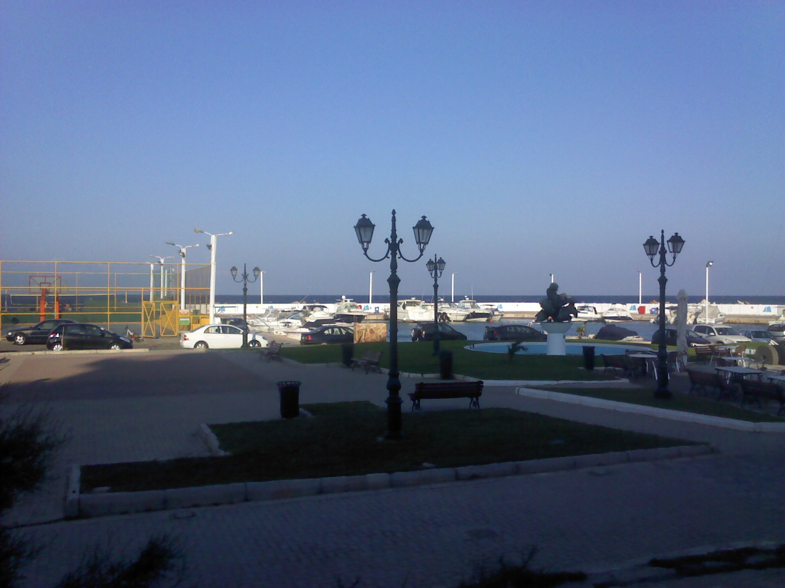 Nautical club in Mati Attika